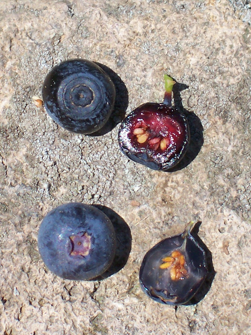 Berries of Vaccinium myrtillus (up) and Vaccinium uliginosum(down) : V. myrtillus : dark-blue, apple-shaped, purple flesh V. uliginosum : bluish, pear-shaped, white flesh